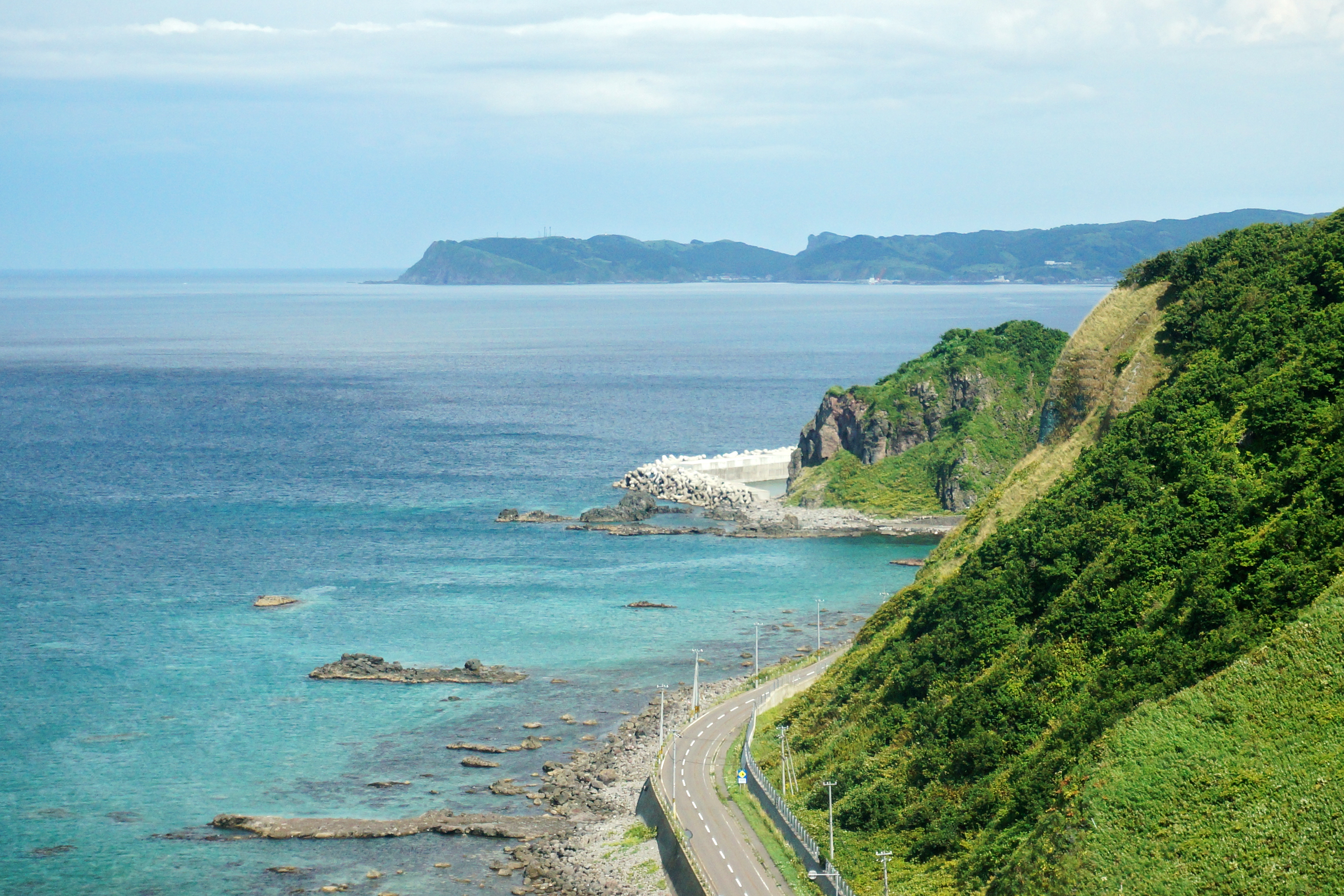 Cape Shakotan in Shakotan, Hokkaido prefecture, Japan.